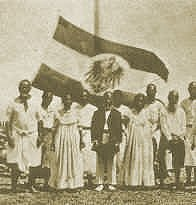 King Auweyida in the middle in front of the German realm's flag during the annexation ceremony in Nauru, about 1893